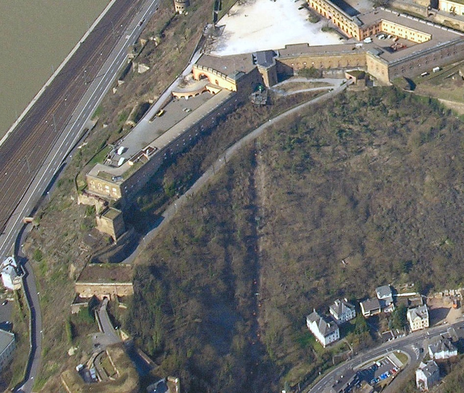 Ropeway and return bullwheel of the chairlift at Ehrenbreitstein Fortress, Koblenz, Germany. The upper left corner shows river Rhine. Aerial image.